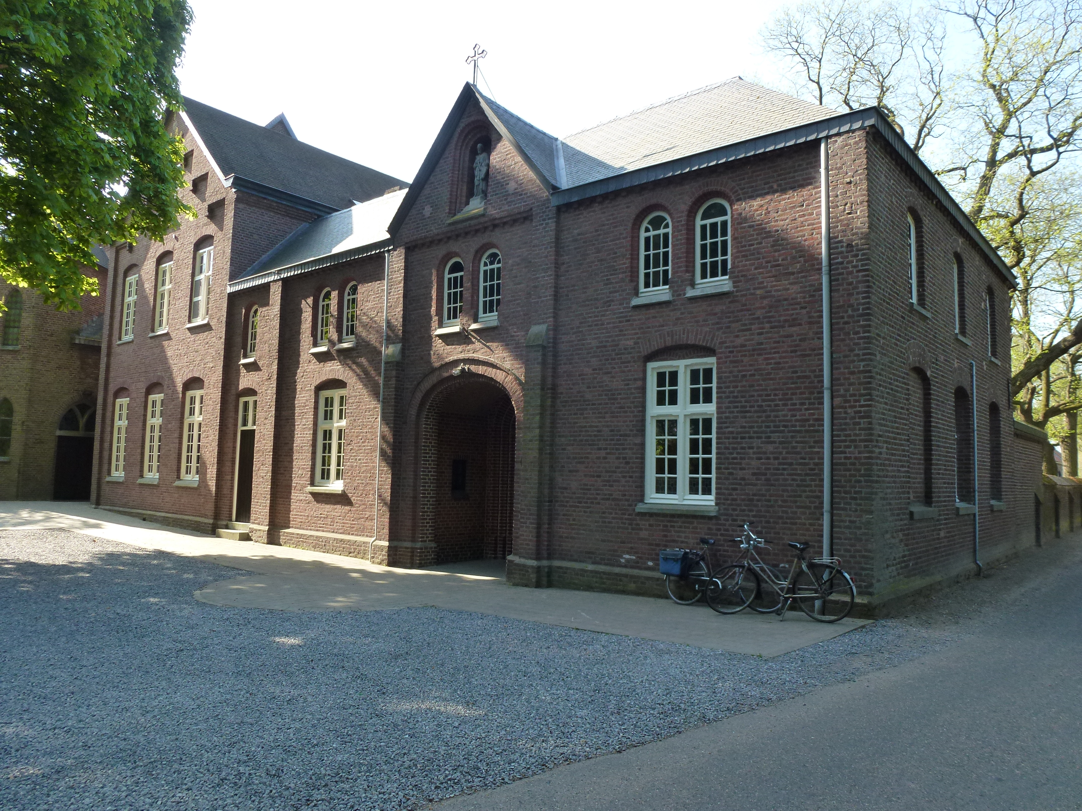 Abdij Lilbosch (Echt-Susteren) beoekersvleugel